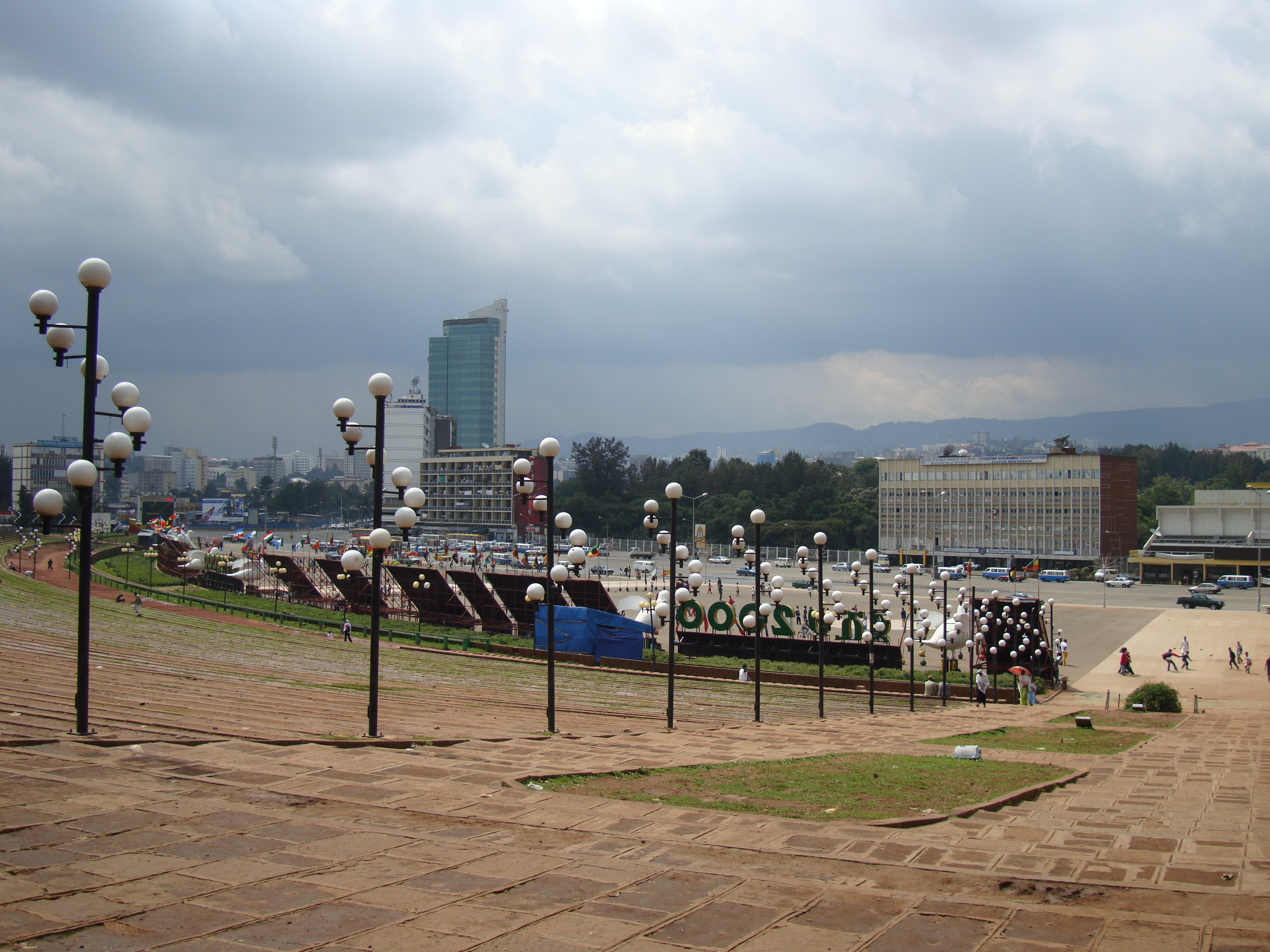 Meskel Adebabay, Addis Abeba, Ethiopia